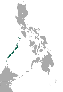 Palawan Fruit Bat (Acerodon leucotis) range